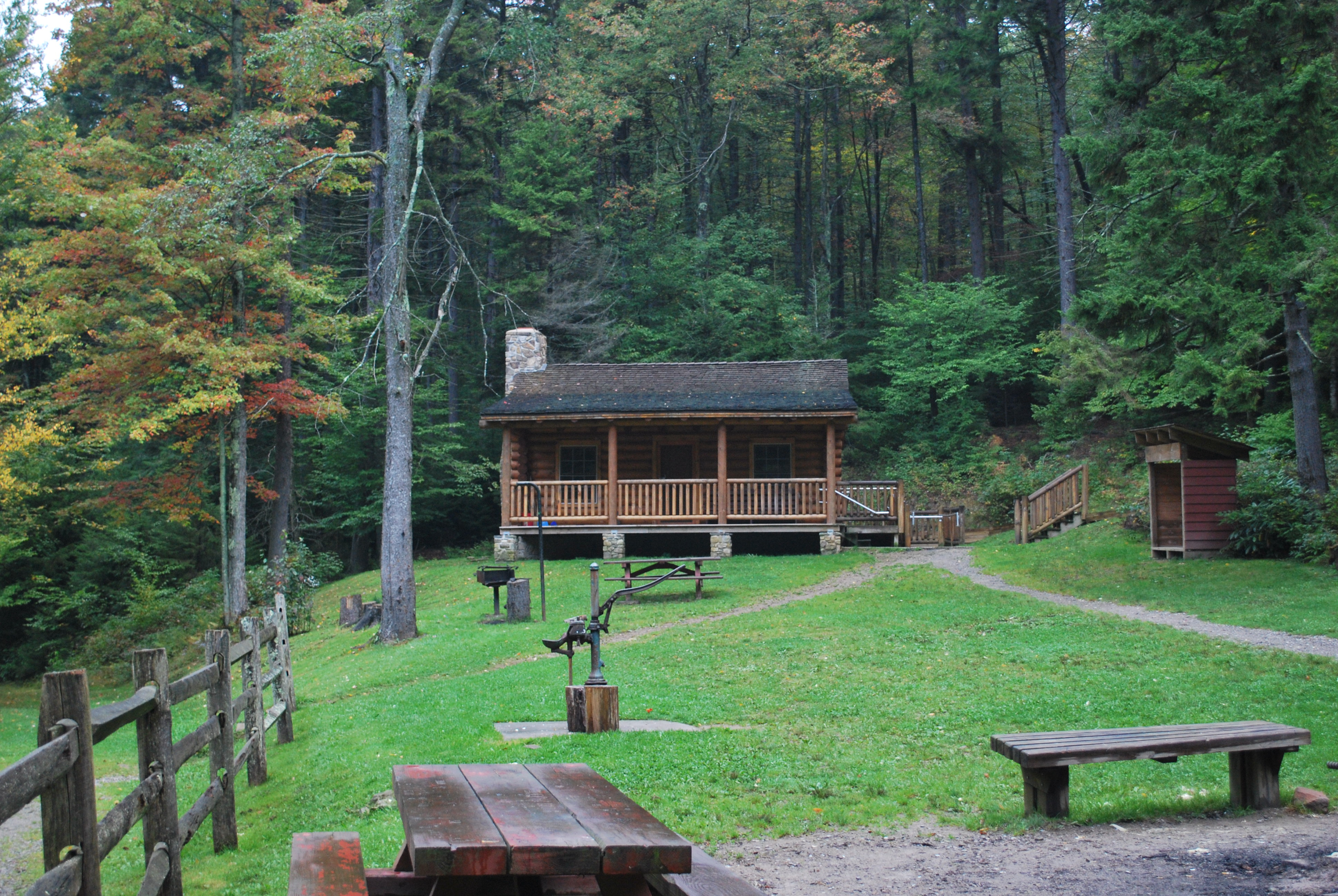 Main cabin (reconstructed after fire on original) at Middle Mountain Cabins in Monongahela National Forest.